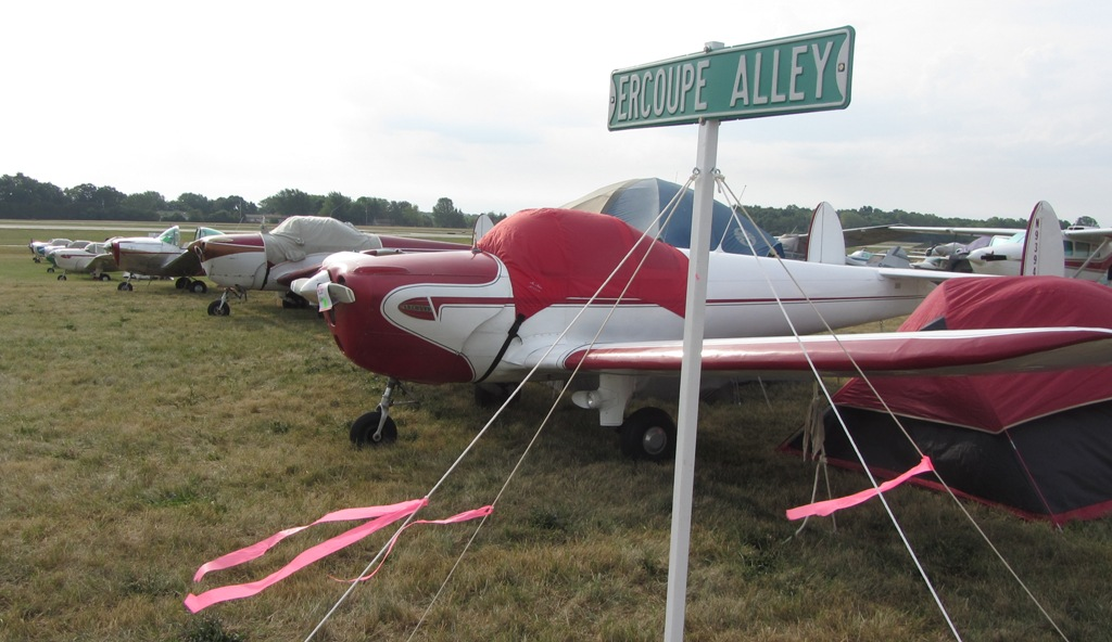 Ercoupes at Oshkosh airshow